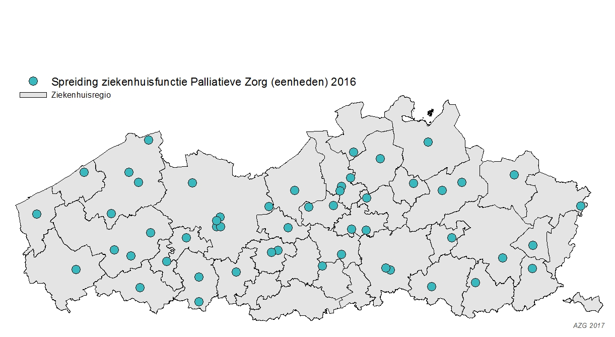 Geographical distribution of palliative care units in 2016 in Flanders